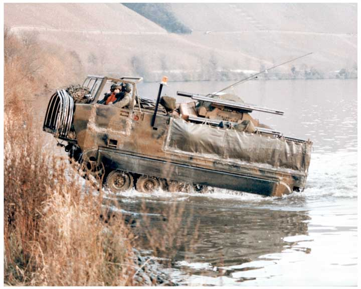 MIM-72 Chaparral launcher vehicle running in water.